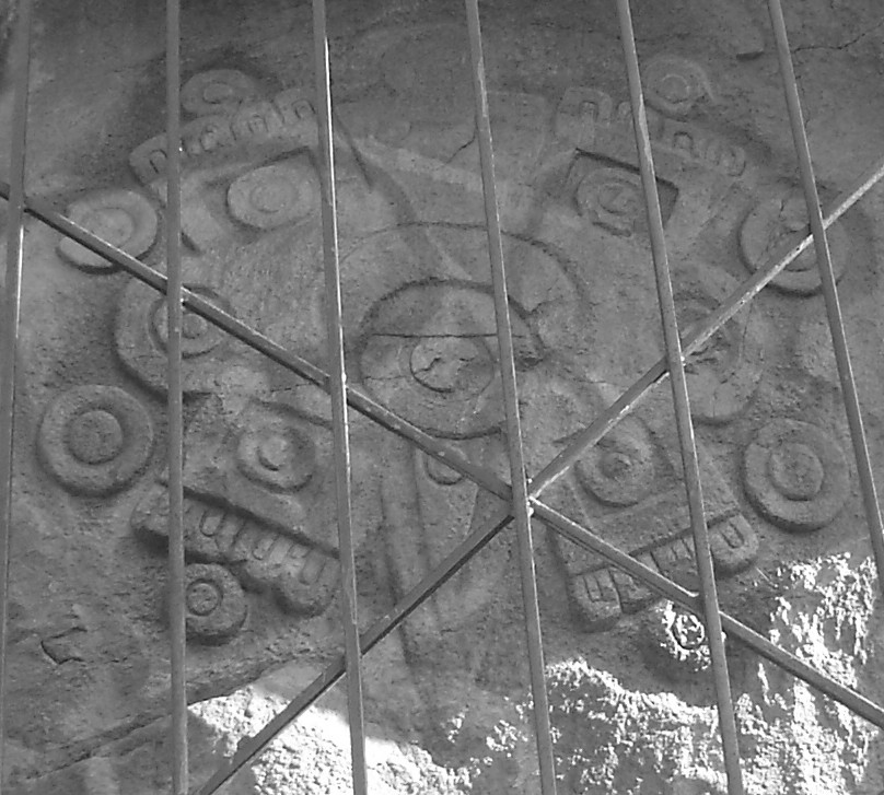 Cuahilama_petroglyph4